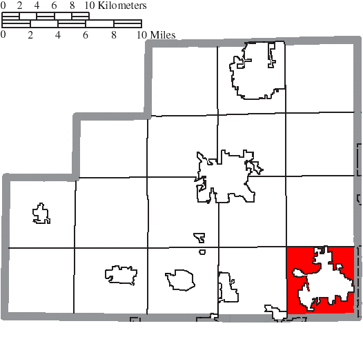 Map of the municipal and township boundaries of Medina County, Ohio, United States, as of the 2000 census, with the location of Wadsworth Township highlighted. Township borders are shown only in unincorporated areas in order to differentiate incorporated and unincorporated areas more clearly.